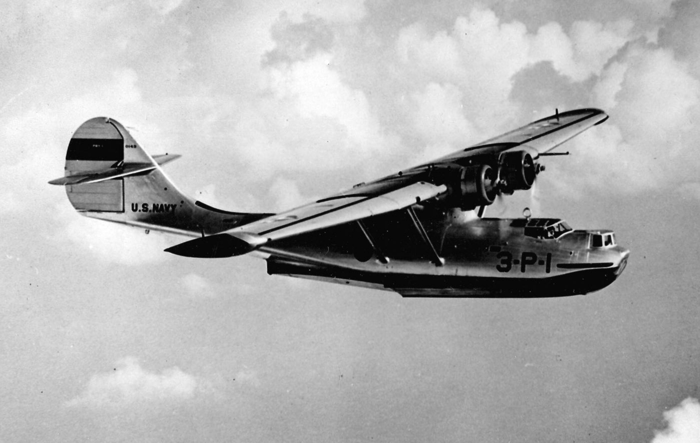 A U.S. Navy Consolidated PBY-1 Catalina (BuNo 0143) from Patrol Squadron 3 (VP-3) in flight. VP-3 was stationed at Naval Station Coco Solo, Panama Canal Zone.